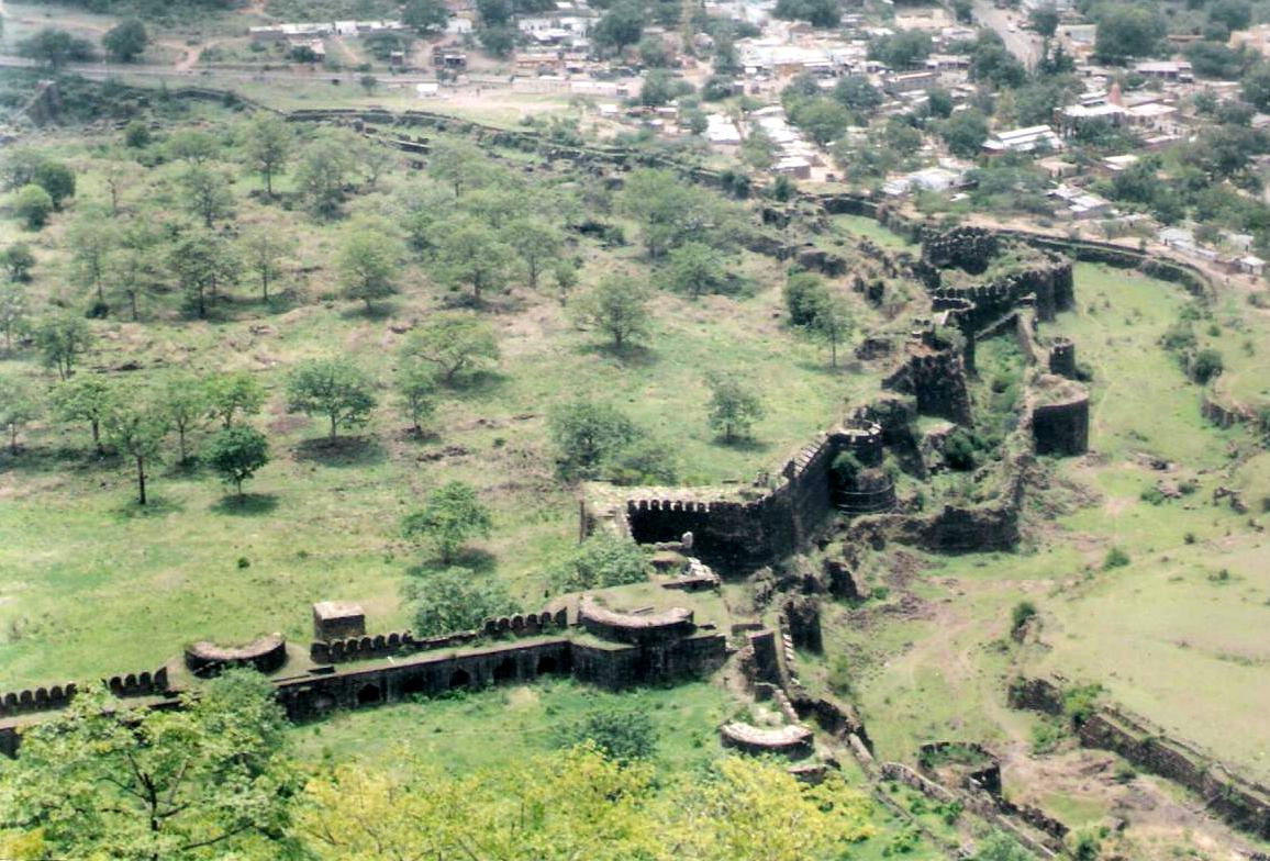 A view from the impregnable 14th century fort